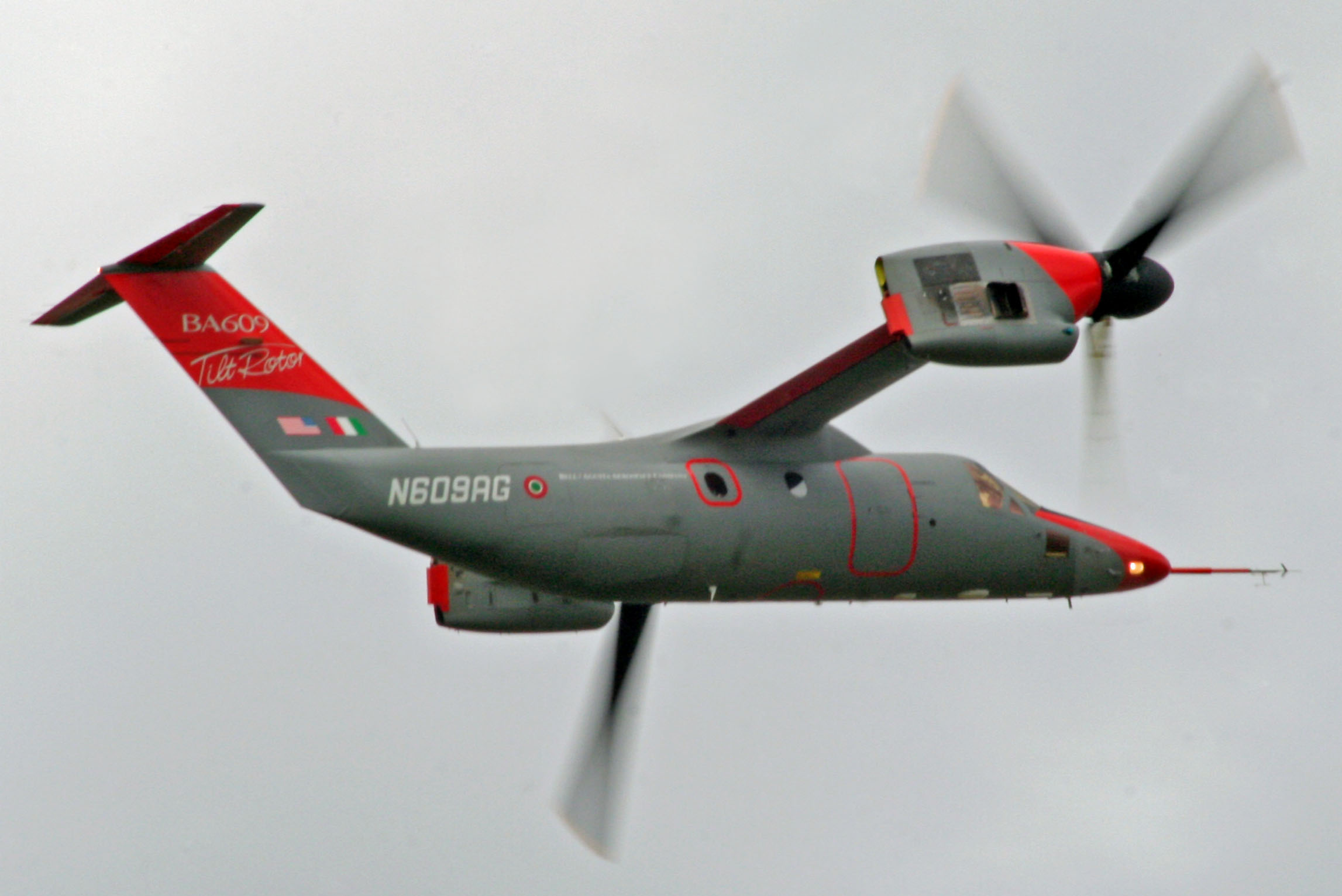 A Bell/Agusta BA609 in airplane mode during the 2008 Farnborough Airshow.